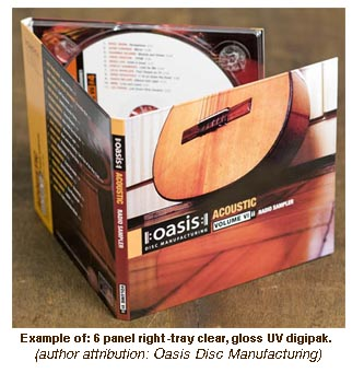 Digipak 6 Panel UV Gloss Finish Right Tray 4/0 radio broadcast compilation